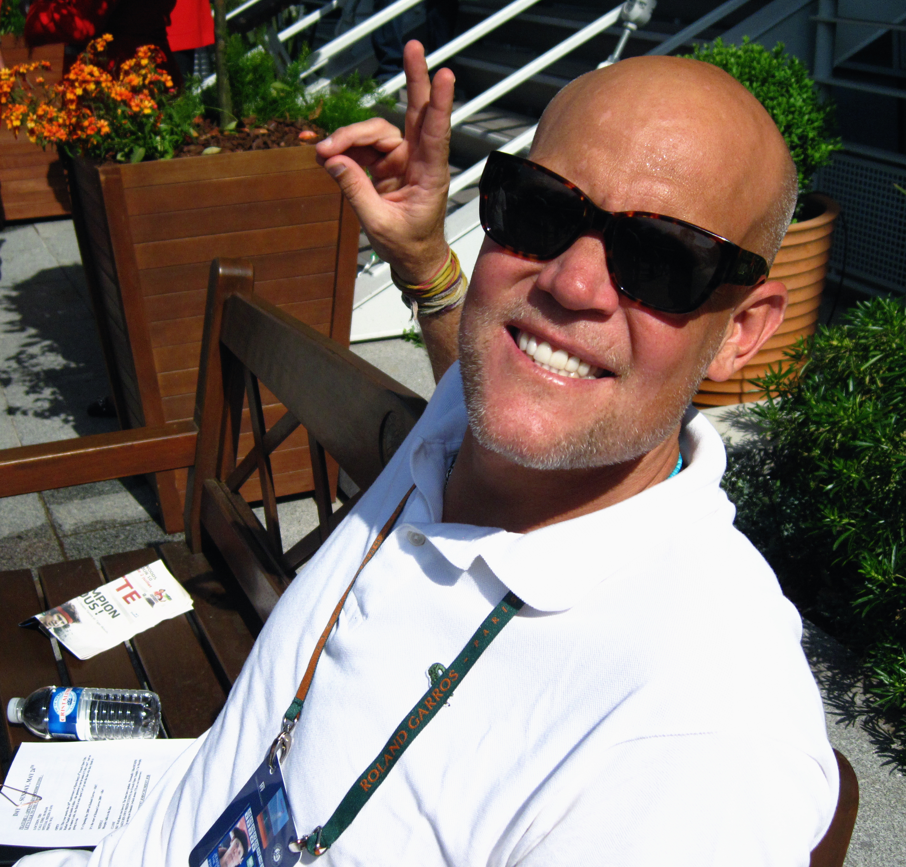 Murphy Jensen at work